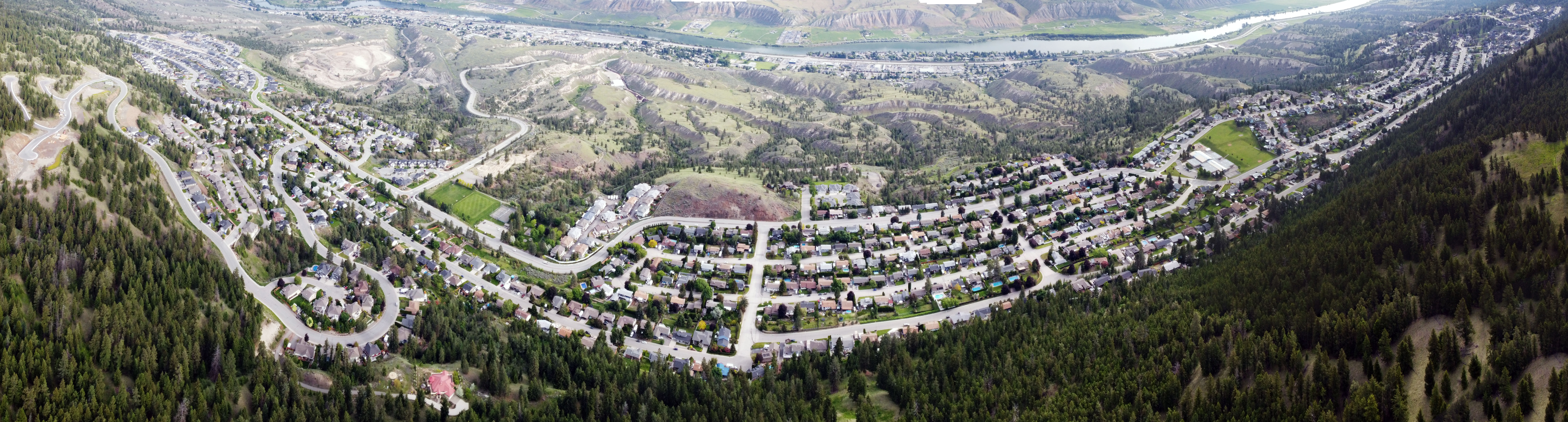 A panoramic photo of Juniper Ridge facing North in 2020